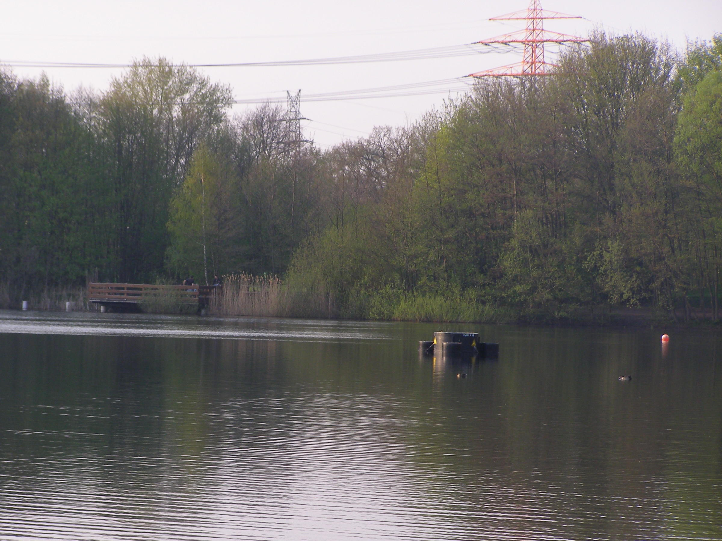 Krupunder See (a lake west of Hamburg) with hypolimnetic aerator